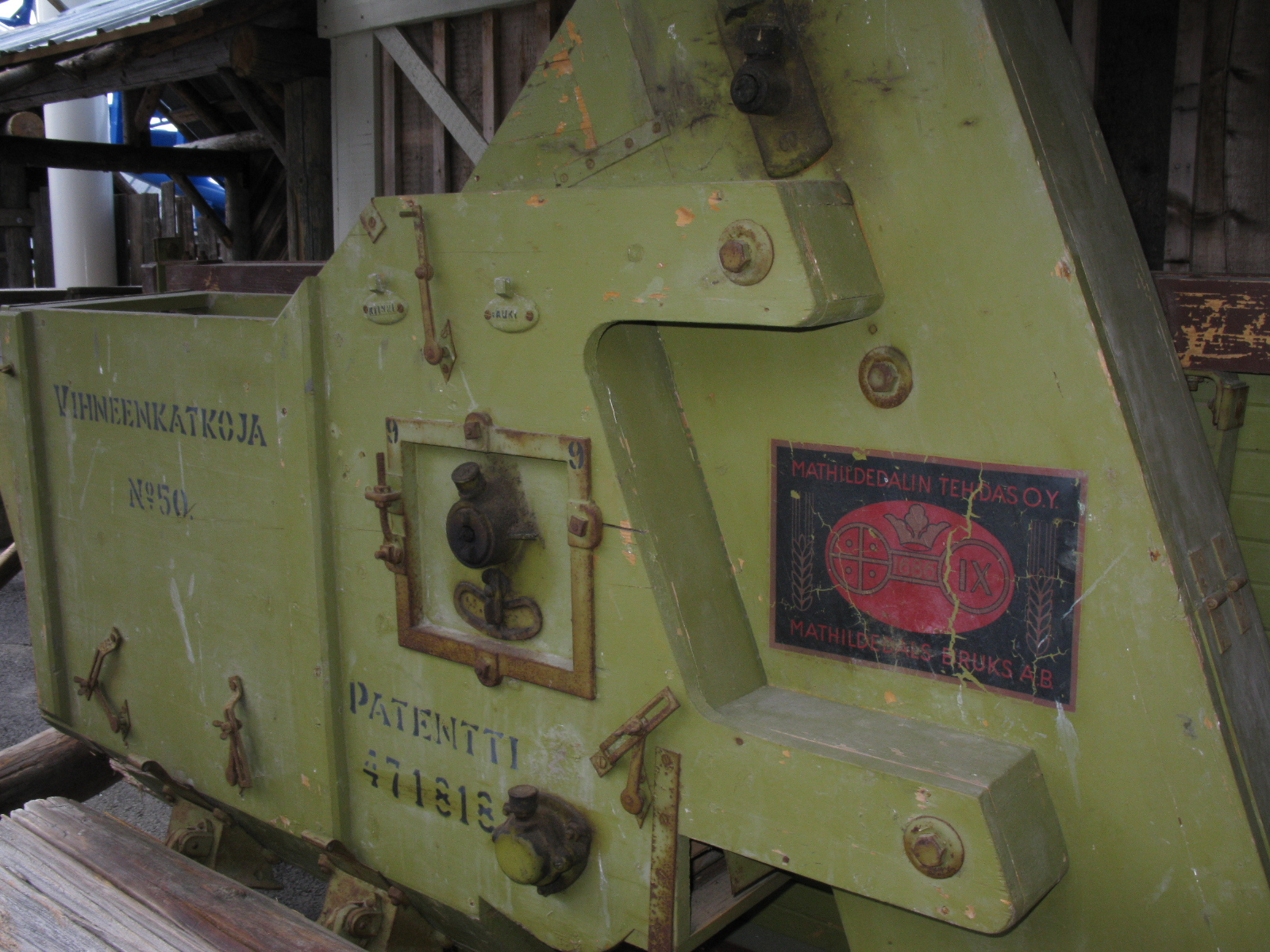 Old Finnish-made threshing machine in the PowerPark amusement park in Alahärmä, Finland.